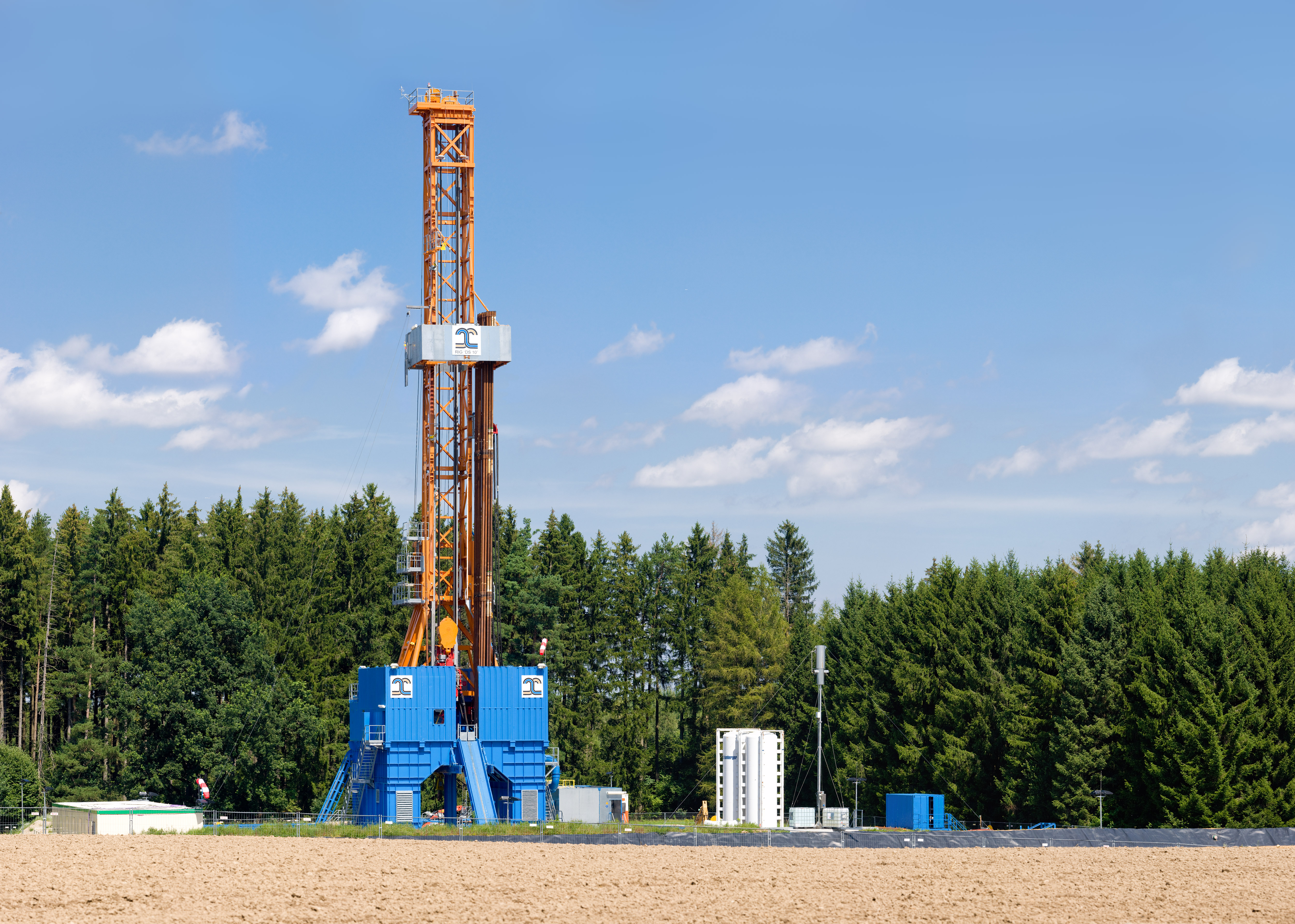 Drilling rig of „Erdwärme Grünwald GmbH“ (EWG) at Laufzorn, Bavaria, Germany